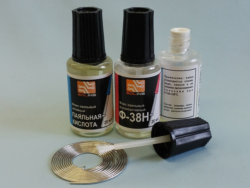 Soldering flux